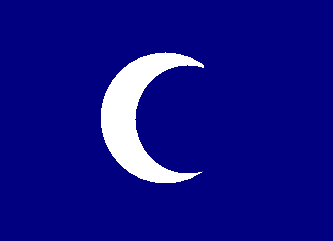 XI Corps, Army of the Potomac, 2nd Division Badge